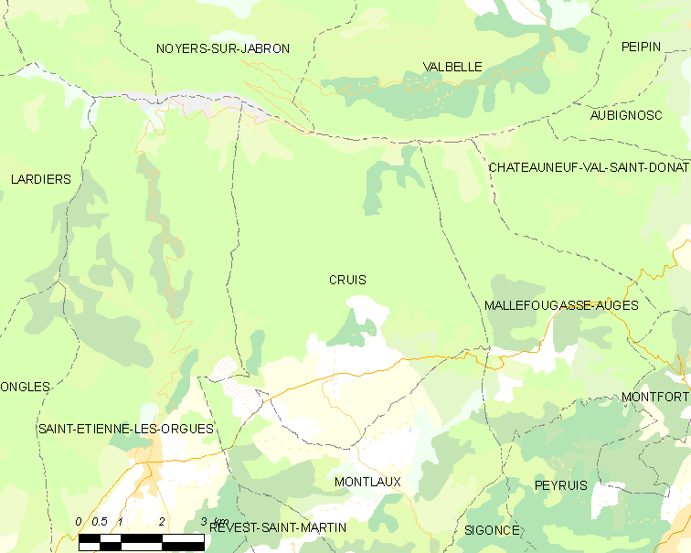 Map commune FR insee code 04065.png Légende